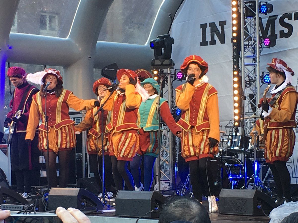 This photo displays several singers dressed in Sooty Piet costumes.